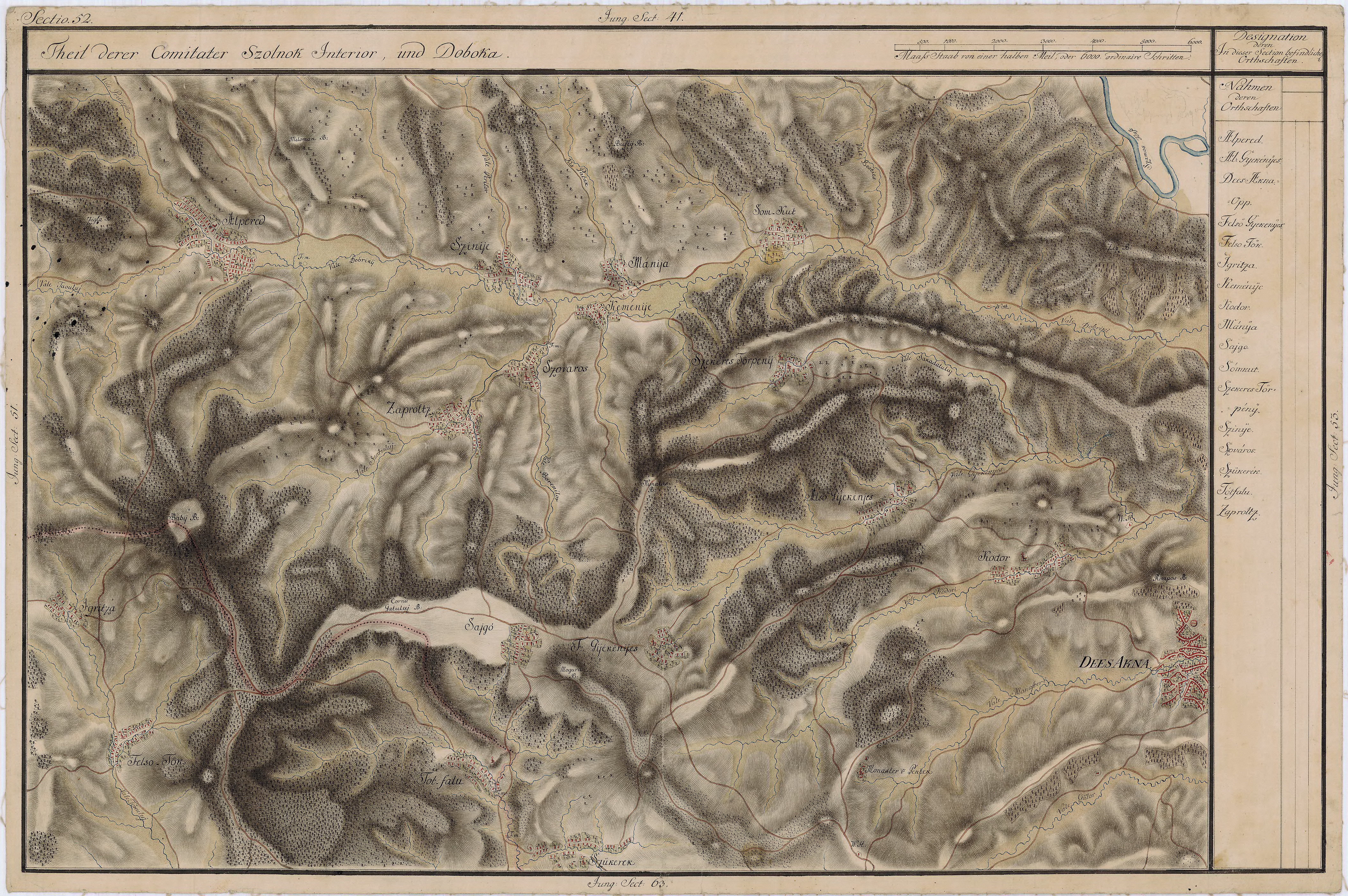 Grand Duchy of Transylvania, 1769-1773. Josephinische Landaufnahme pg.052